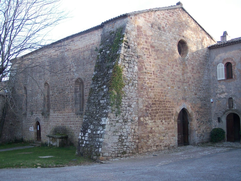 Sainte-Roseline chapel (XIth century) of the former abbey of La Celle-Roubaud, Les Arcs, Var (France)